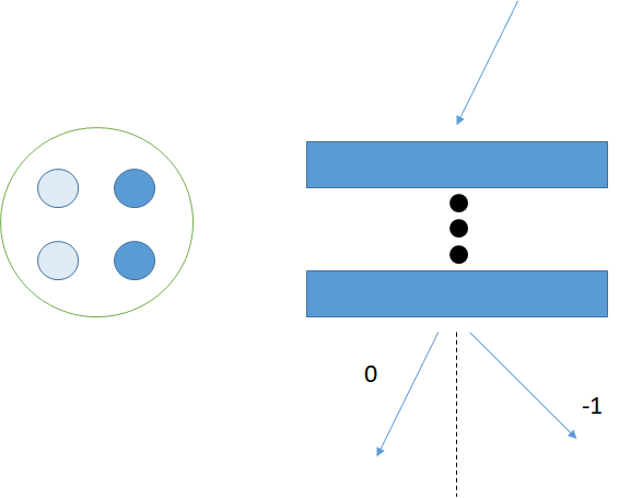 Nontelecentricity from EUV quadrupole illumination with angle differences results in tendency for pattern shift.